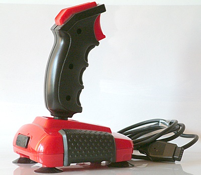 QuickShot II Turbo - Popular digital joystick for Commodore computers.